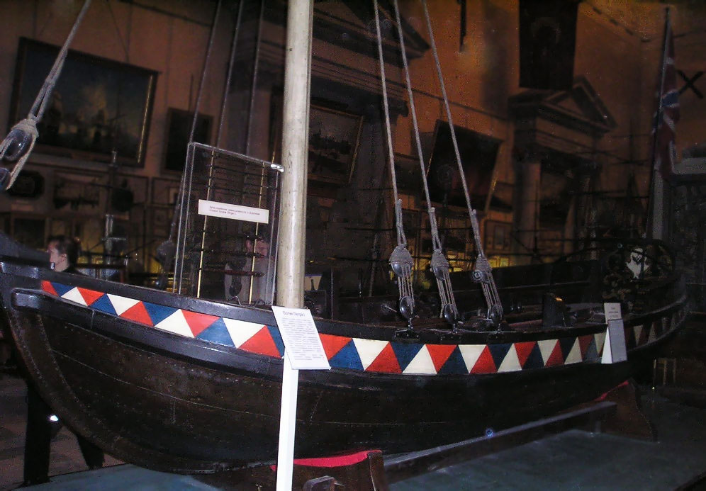 Grandfather of the Russian navy. Boat of Peter the Great. The exhibit of Navy Museum in Saint-Petersburg, Russia.